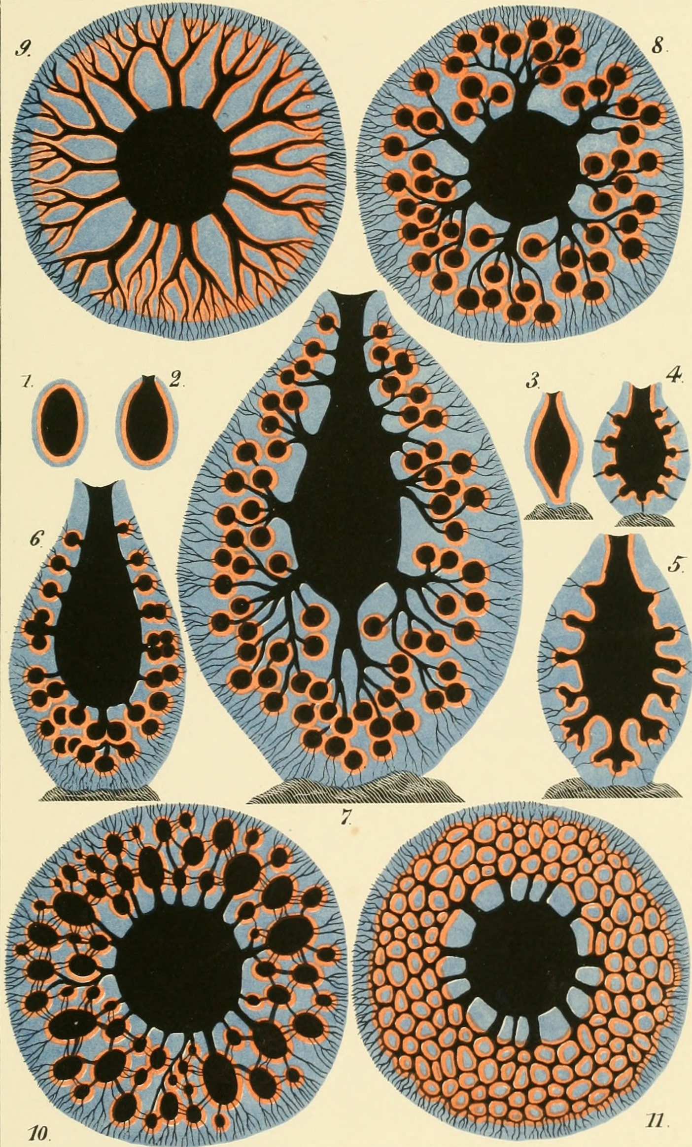 Title: Die Kalkschwämme. Eine Monographie .. Year: 1872 (1870s) Authors: Haeckel, Ernst Heinrich Philipp August, 1834-1919 Subjects: Sponges Publisher: Berlin, G. Reimer Text Appearing Before Image: Taf.40. Text Appearing After Image: E Hcüeckel dd l.'uh.Anst V E Gdtsck. Jtna,.